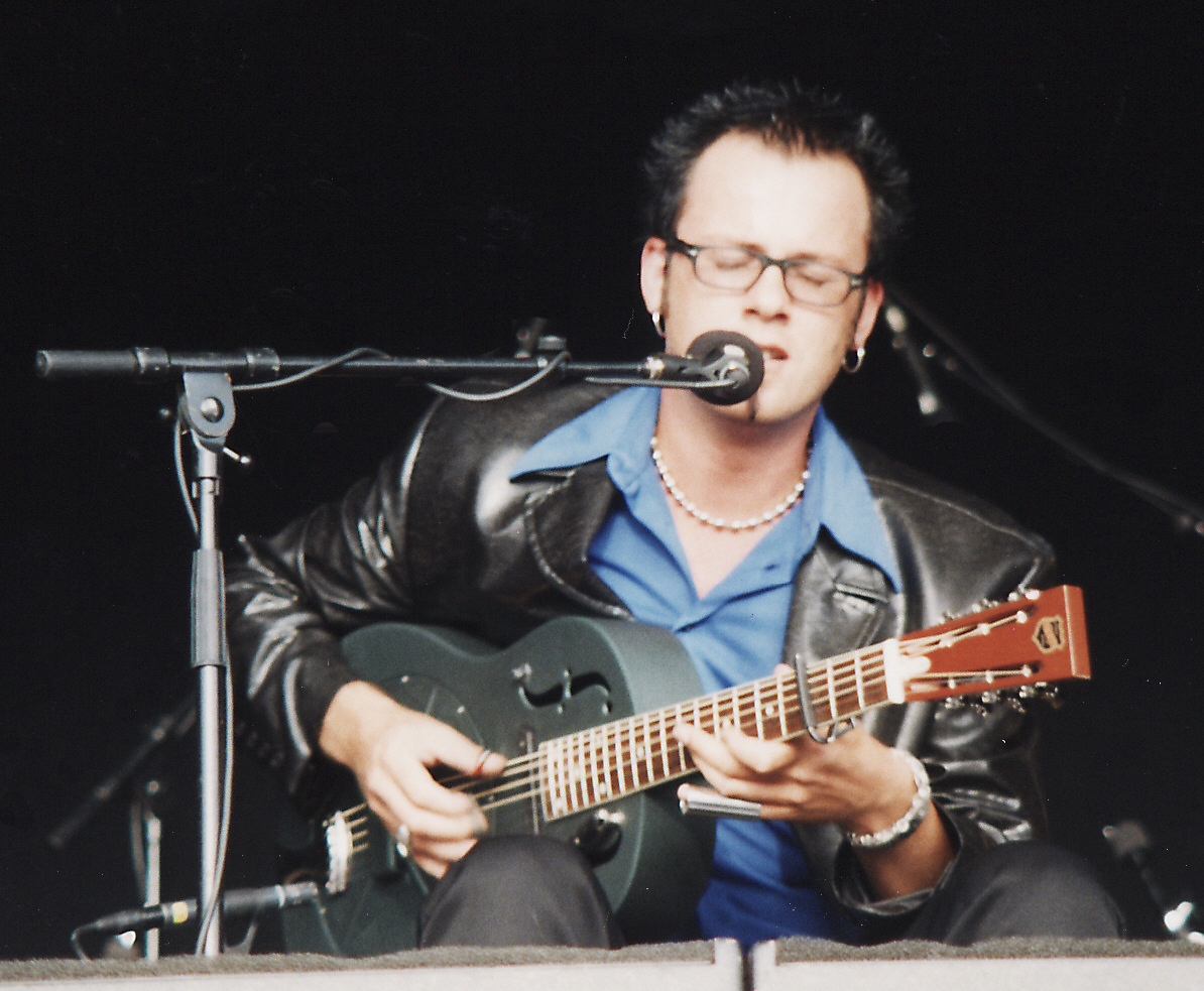 Bjoern Berge performs at Notodden bluesfestival, Norway, 1999